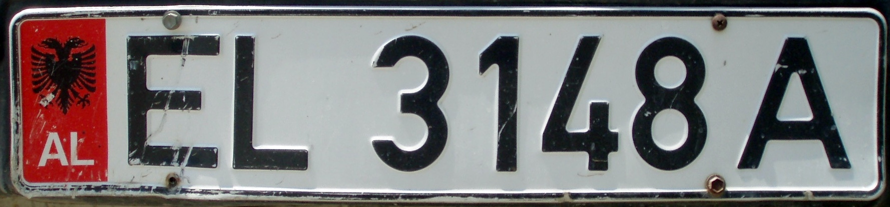 license plate of Elbasan, Albania